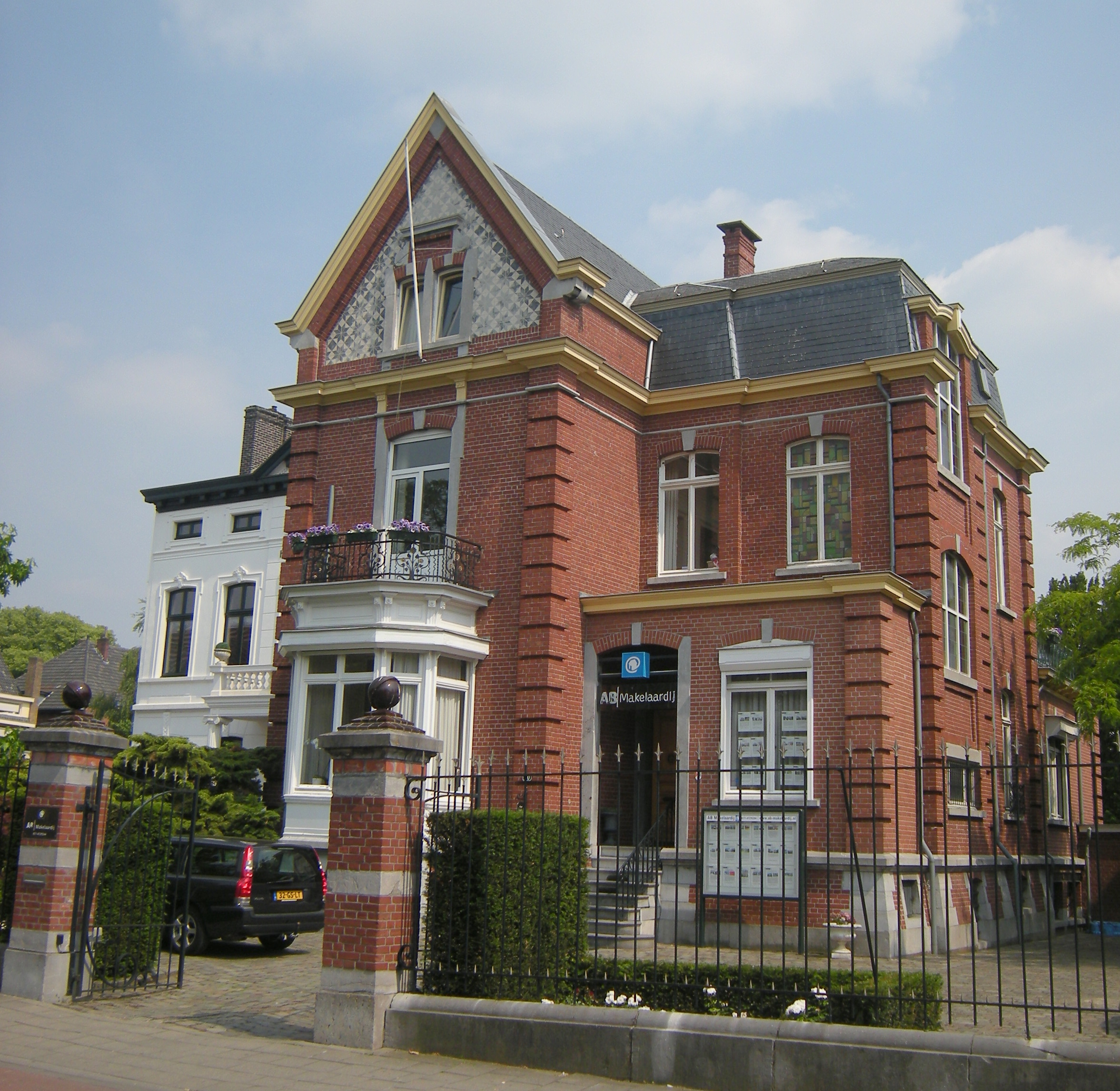 St-Martinusstreet 60 Venlo